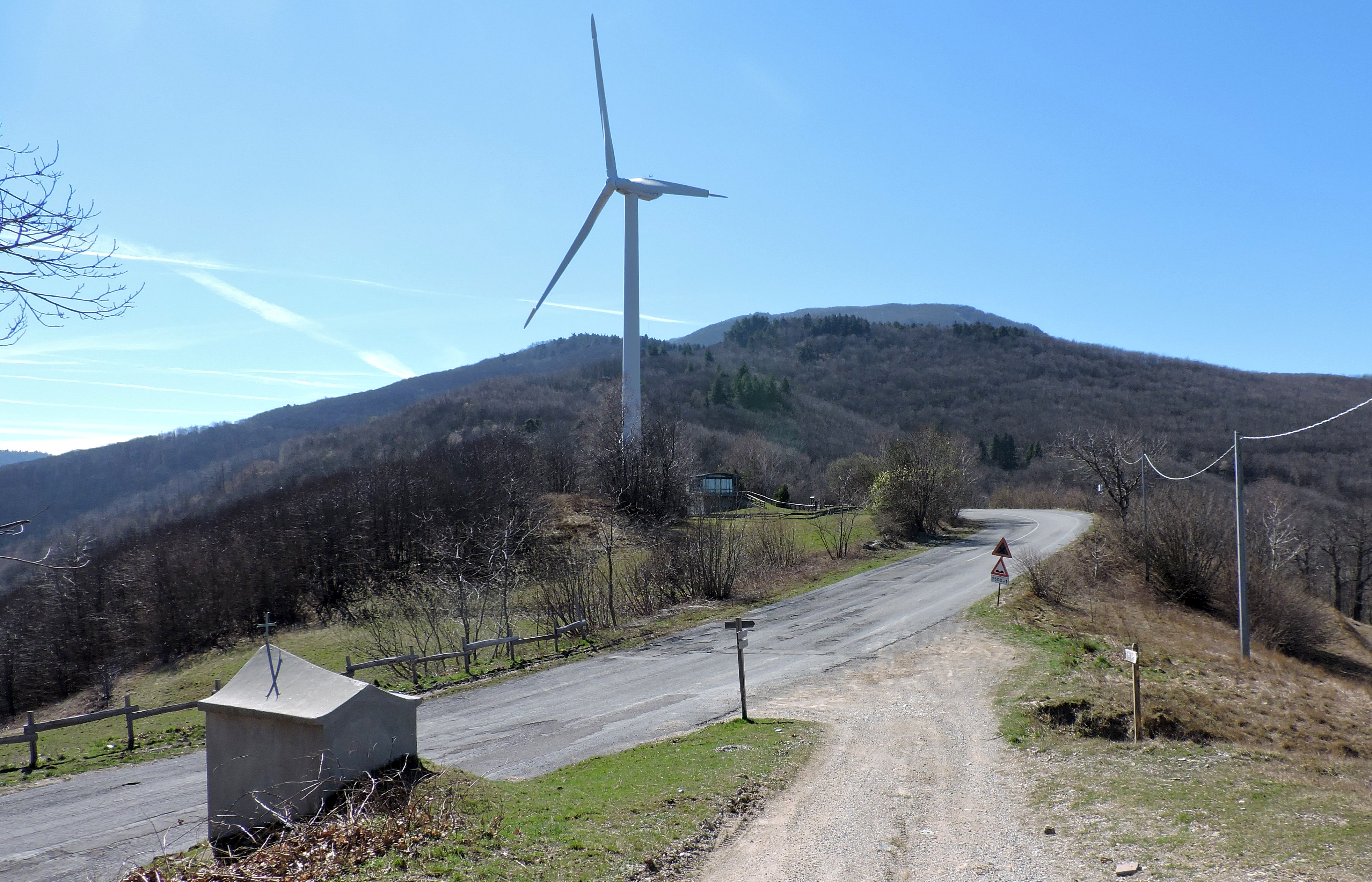 Colla Baltera (Prealpi liguri, SV, Italy) from North, in the background Monte Settapni